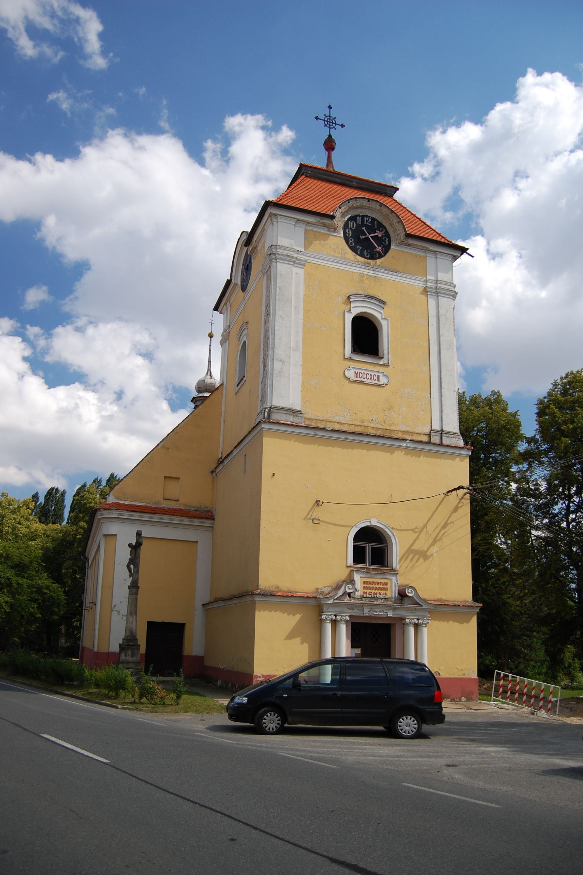 Church of the Assumption, Mostkovice, Prostějov District, Czech Republic